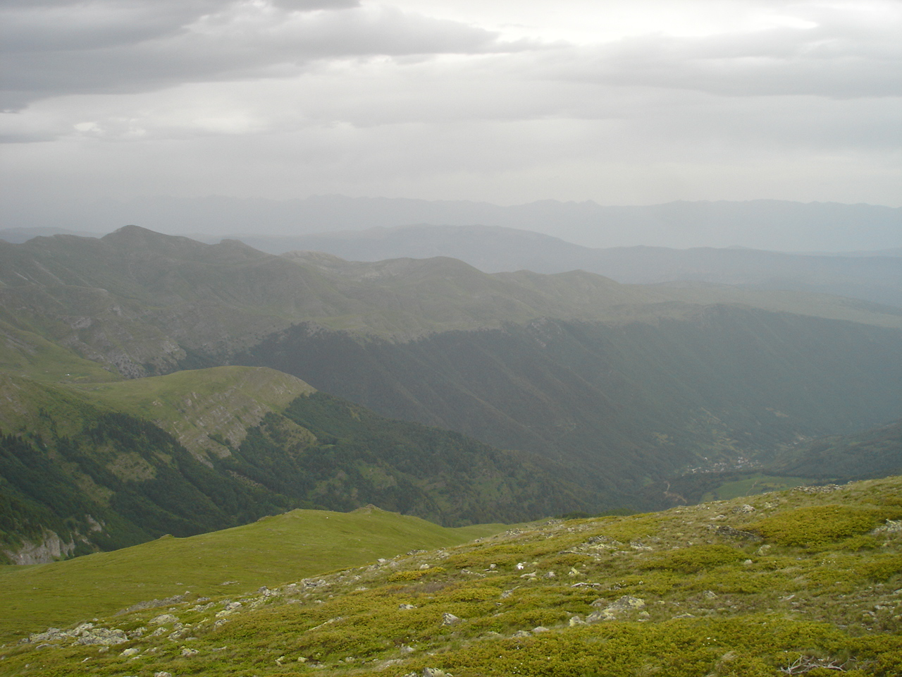 Suva (Dry) Mountain on Karadzica massif